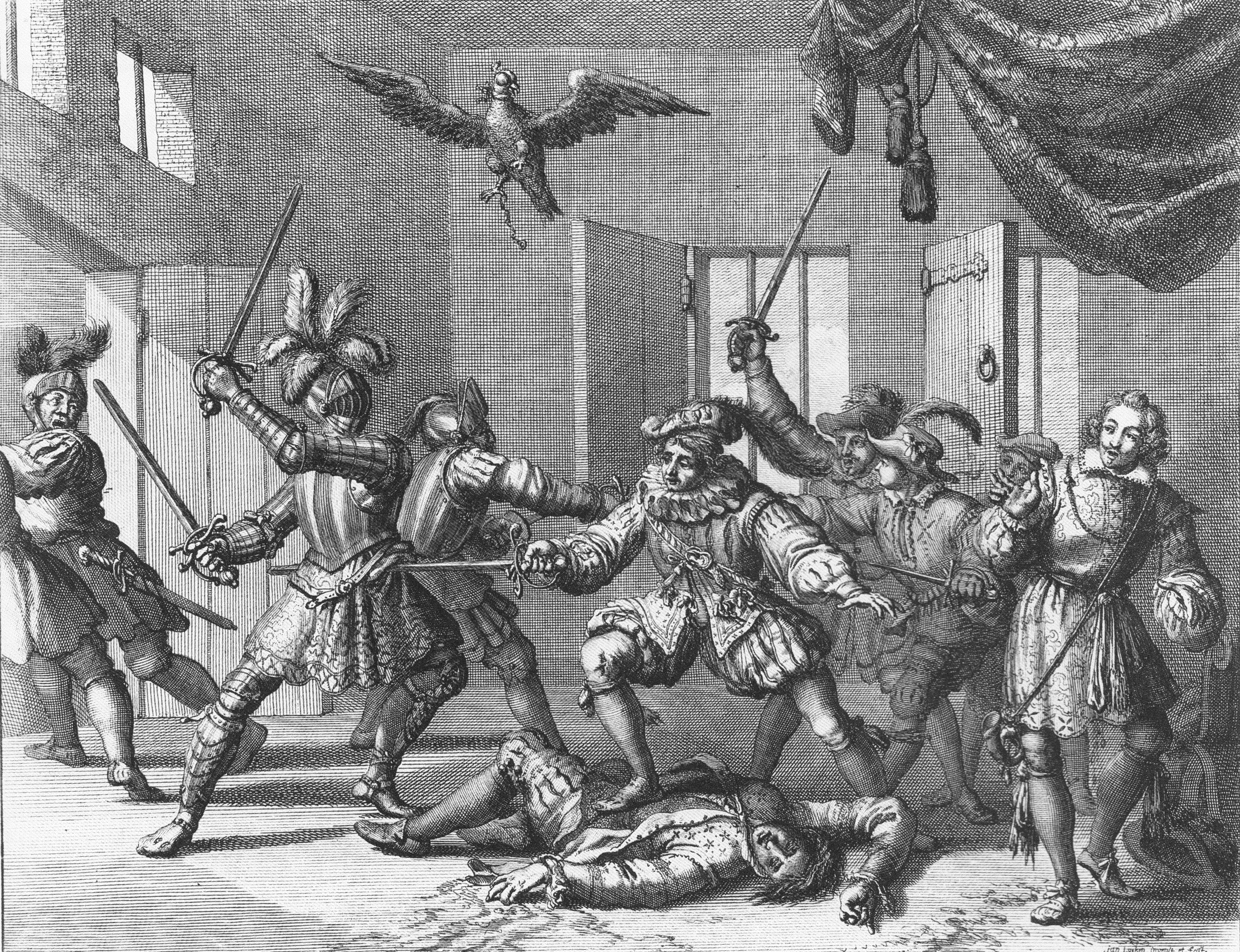 The Gowrie Conspiracy; engraving by Jan Luyken (1649-1712). King James is on the right.